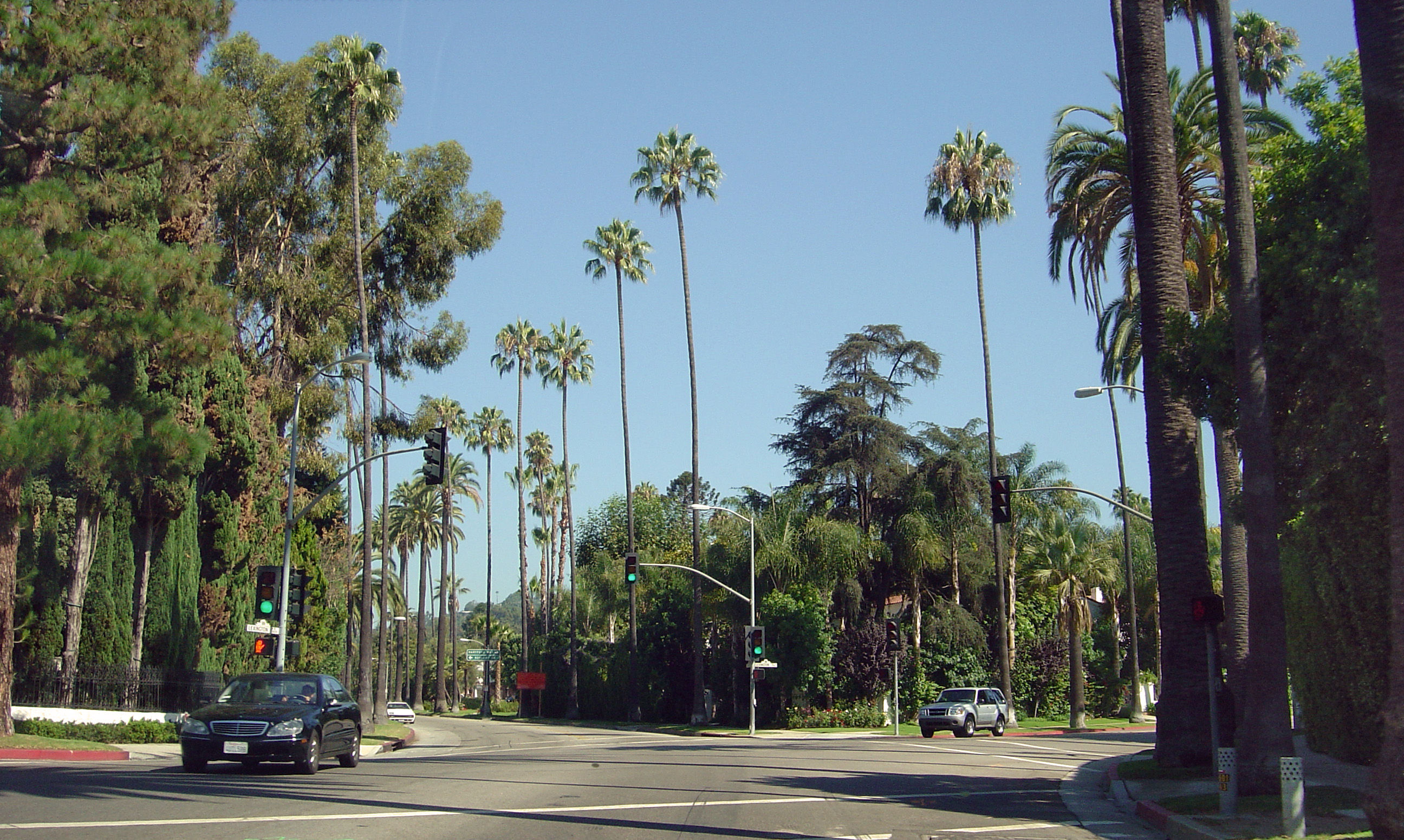 The intersection of Benedict Canyon and Lexington Roads in Beverly Hills, California